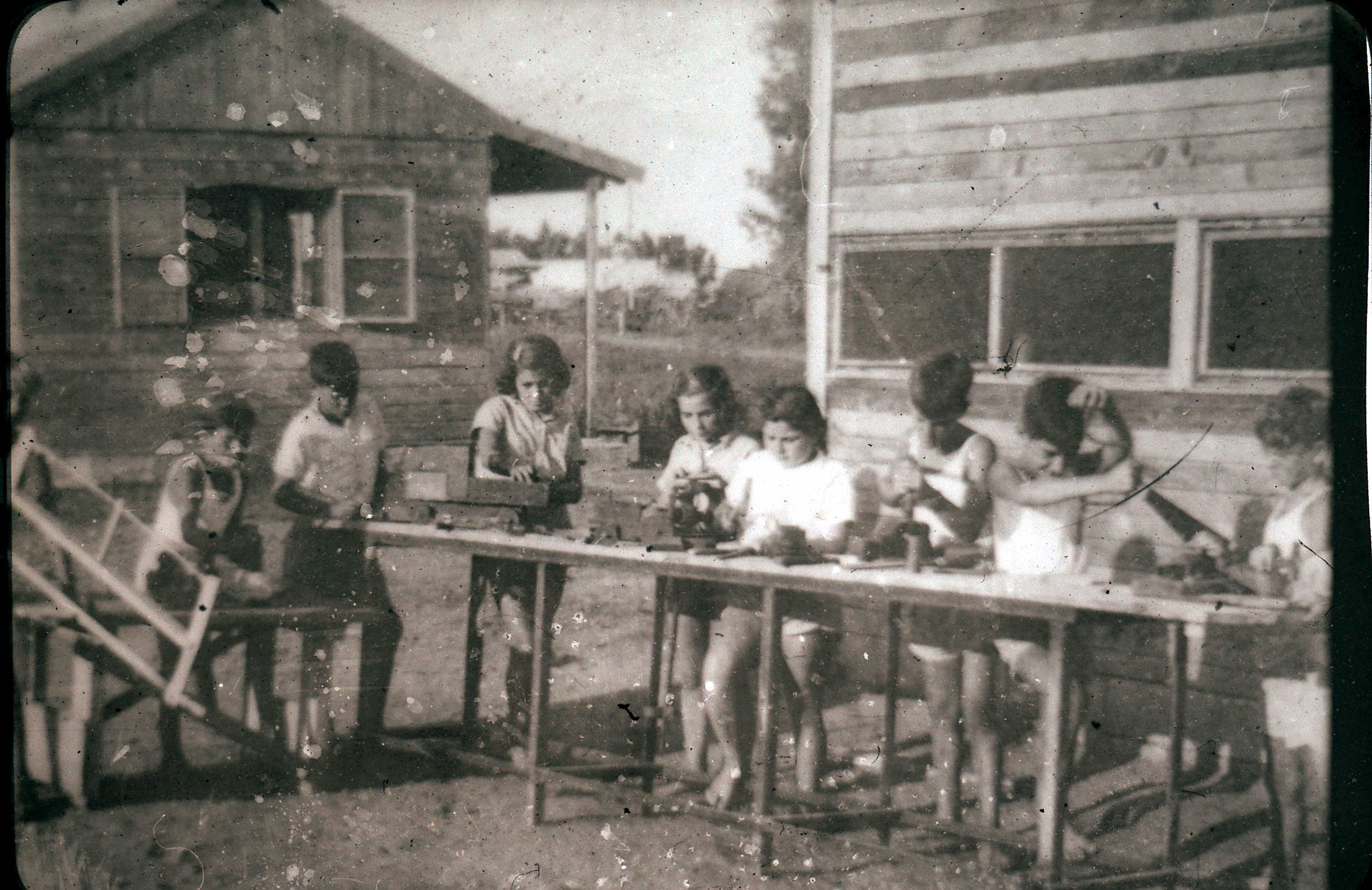 Givat Haim School, Education in Israel